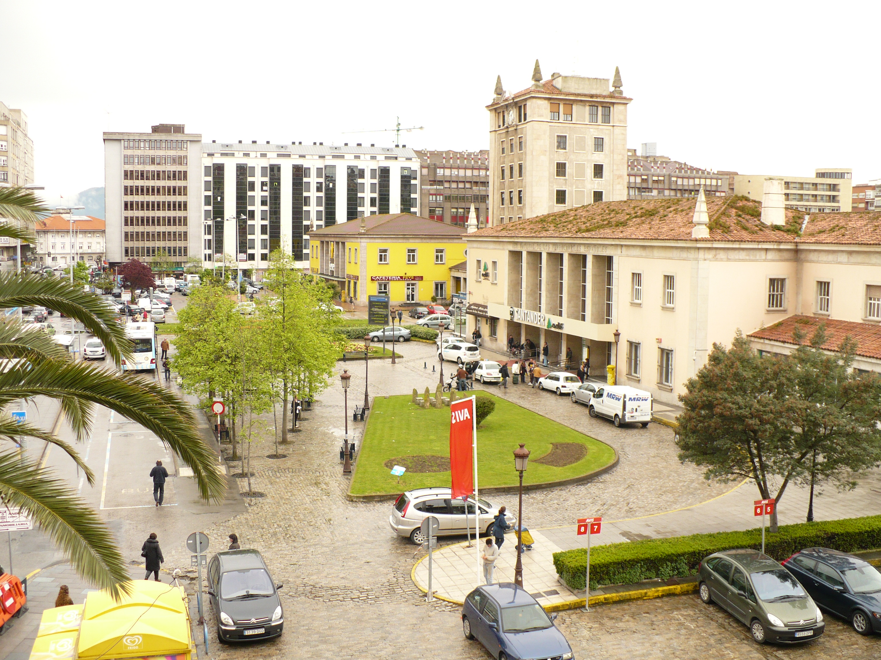 Plaza de Las Estaciones (Santander) from Parque Sotileza